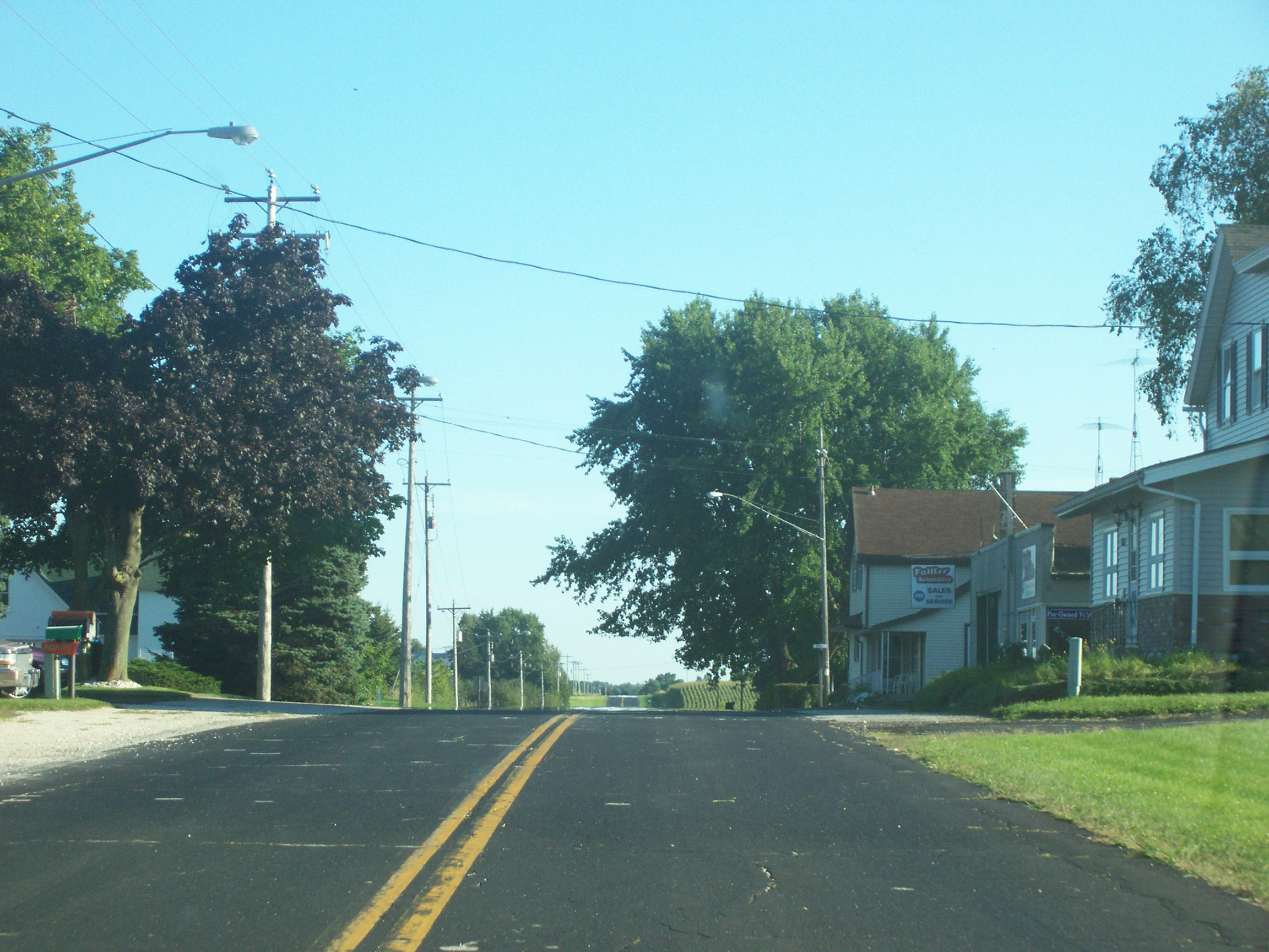 Looking south in Newton, Wisconsin. I took this image myself on August 12, 2006.